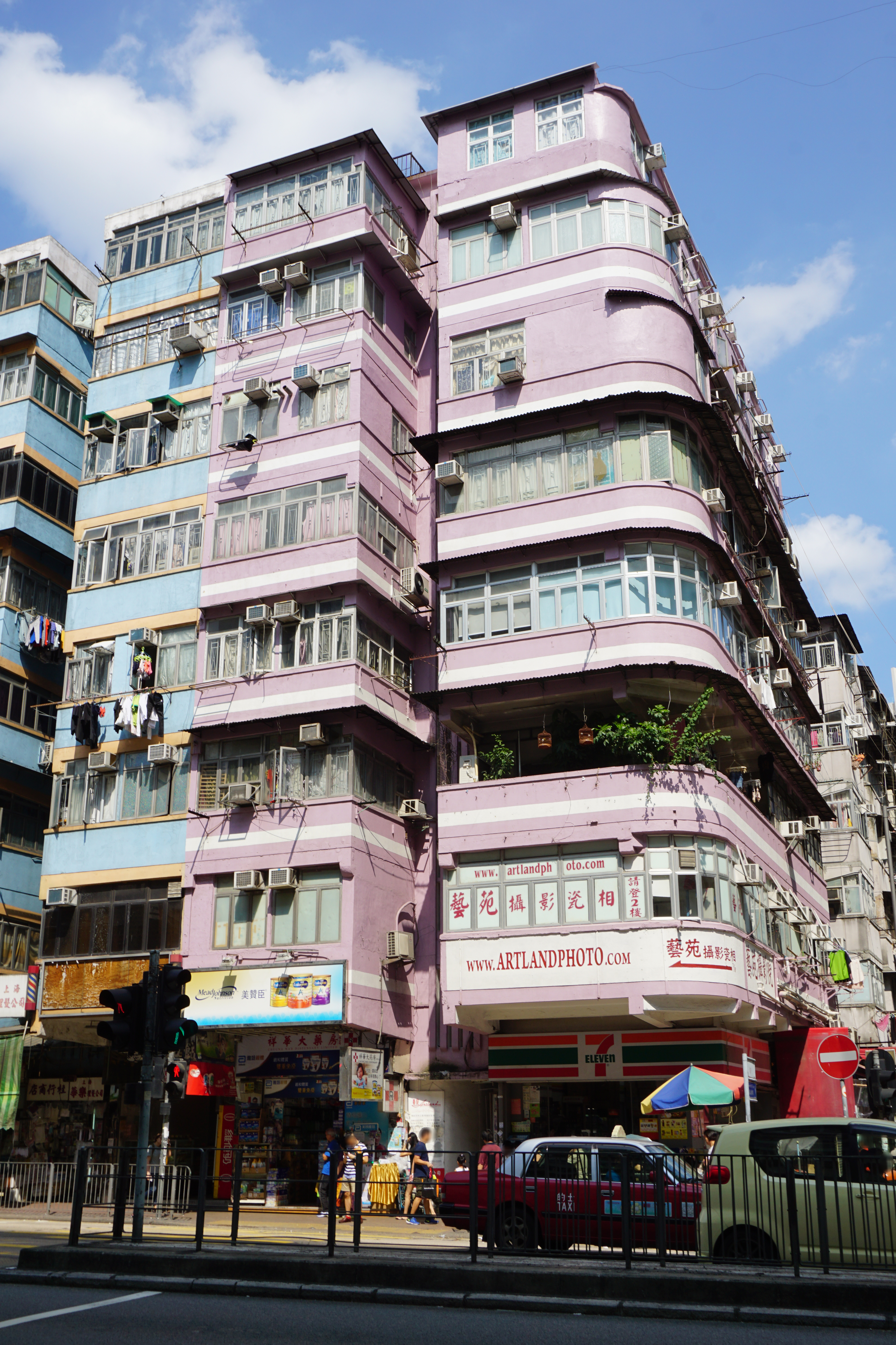 Ma Tau Wai Road in To Kwa Wan, Hong Kong.